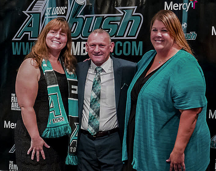 The current ownership group of the Ambush is Shelly Clark, Tony Glavin and Dr. Elizabeth Perez